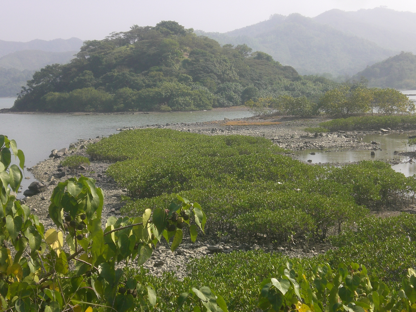 香港北區zh:鹿頸路